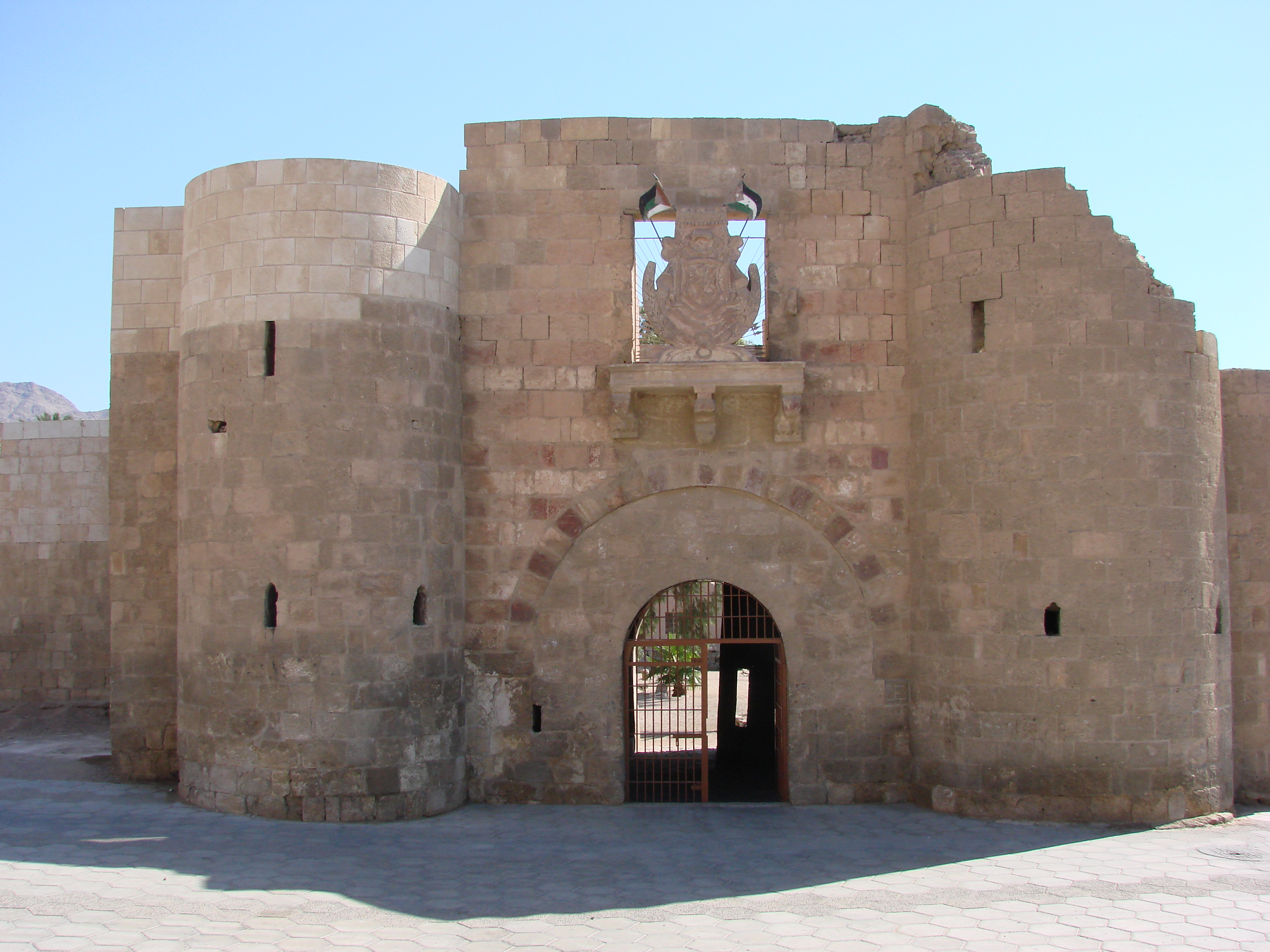 Aqaba Fort